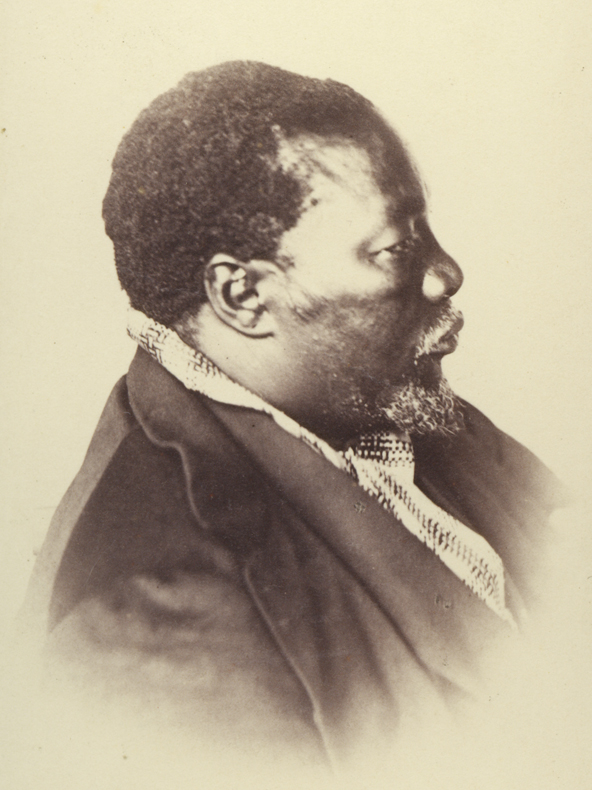 Sechele, chief of the Kwena tribe of Botswana and early Christian missionary. According to Keith Dietrich and Andrew Bank in An eloquent picture gallery : the South African portrait photographs of Gustav Theodor Fritsch, 1863 - 1865 (2008): "Sechele was happy to be photographed and dressed himself for the occasion in a black ‘dress’ with a colourful silk cravat, ‘fez’, ‘mackintosh’ and riding boots, which, Fritsch noted, he wore on Sundays when he preached. Fritsch gave Sechele an albumen print of his portrait that included the fez, though the photograph used for his book excluded this. Fritsch also recalled that Sechele was very disappointed that the photograph did not include his boots".